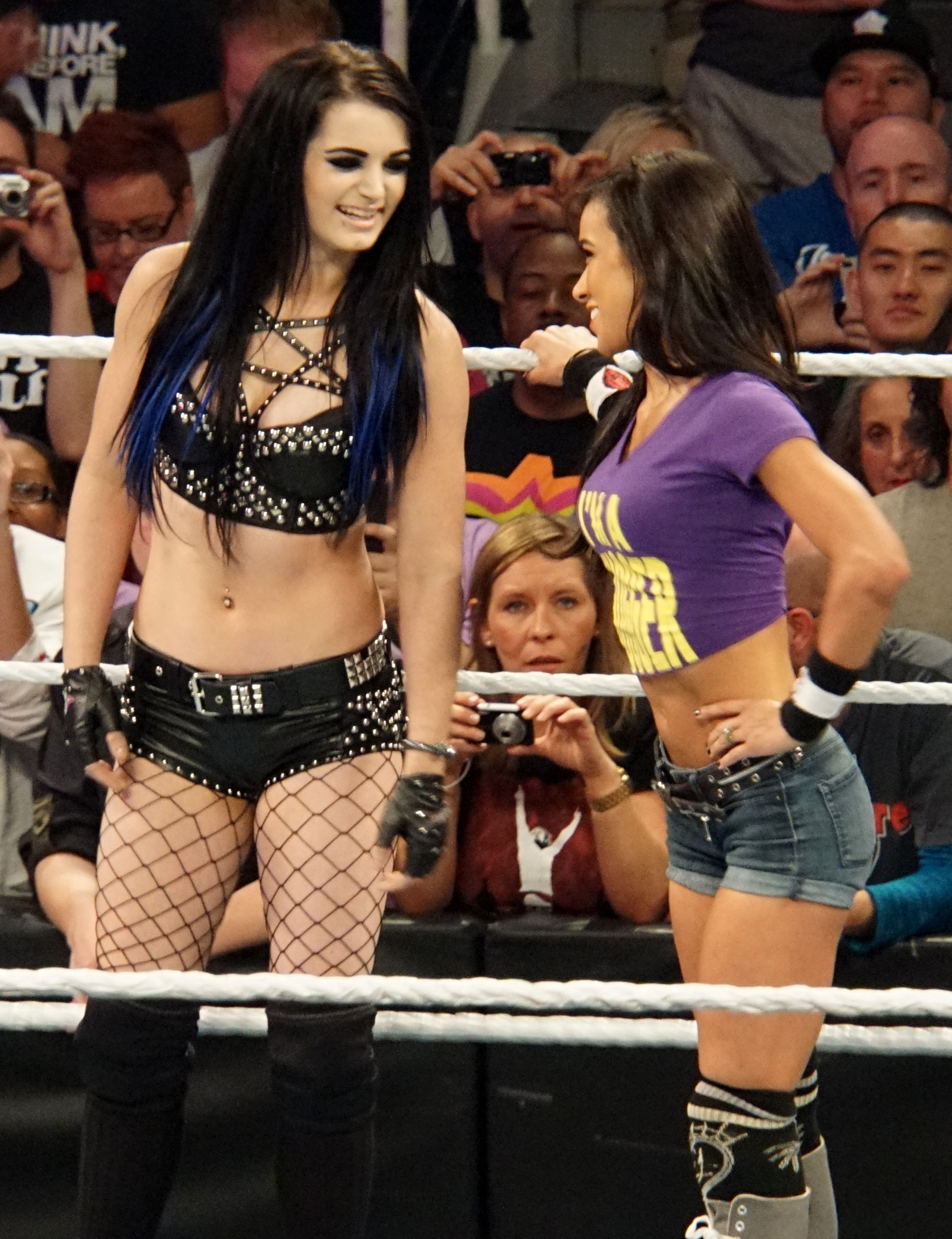 AJ Lee and Paige standing together in the ring prior to their match at a WWE Raw event on March 30, 2015.